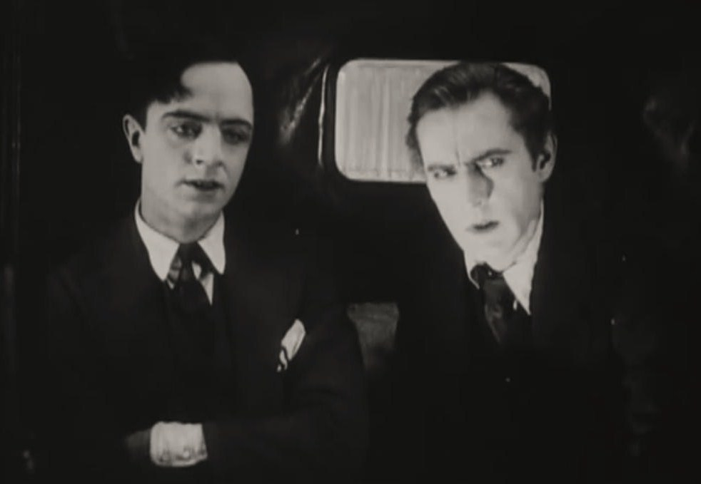 William Powell (left) & John Barrymore in Sherlock Holmes - cropped screenshot